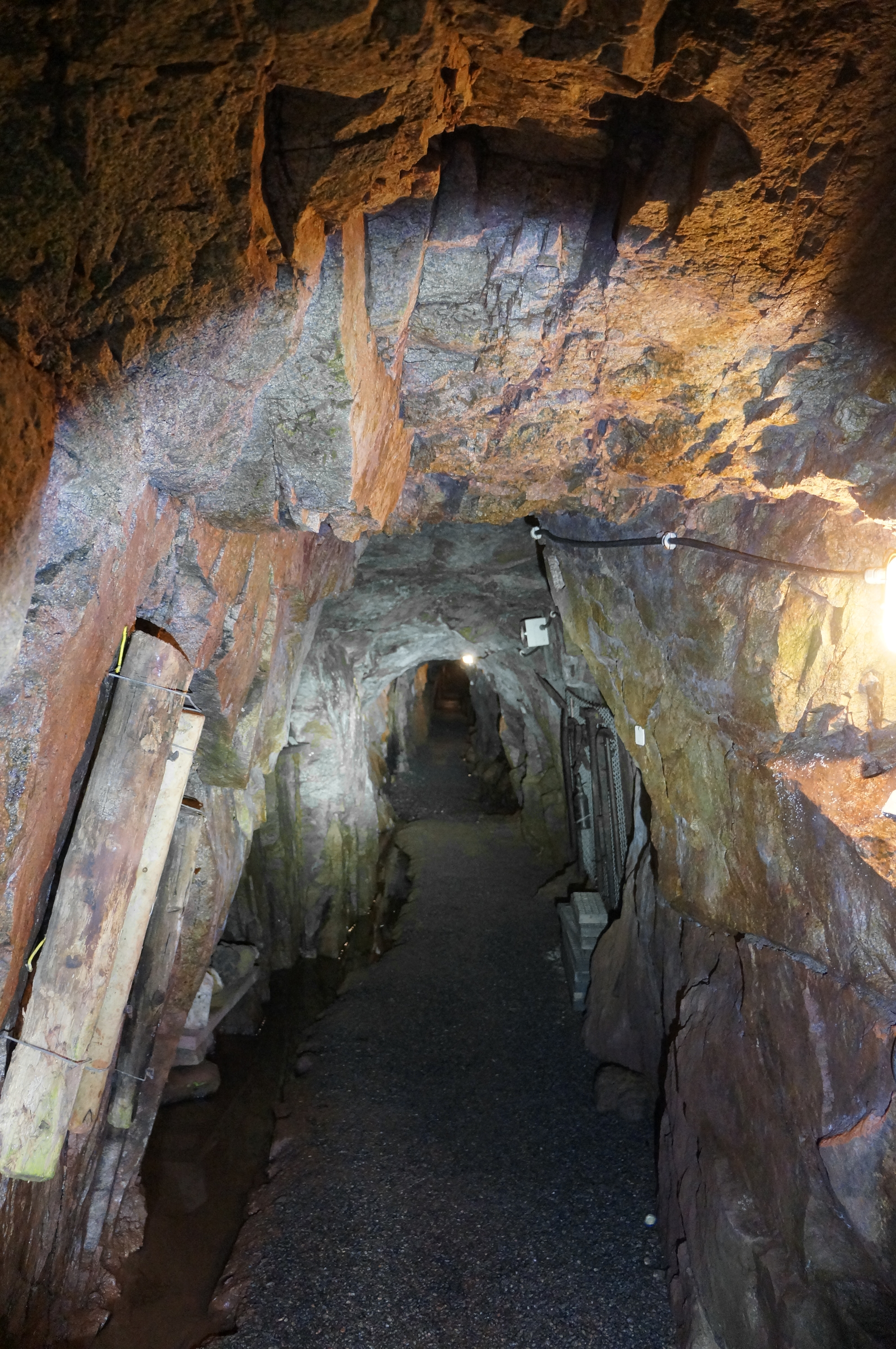 Ludwig mine in Wald-Michelbach, view into main adit.